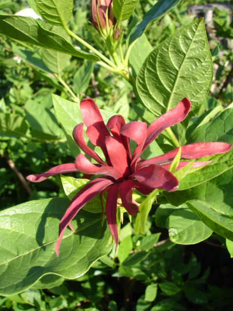 Calycanthus floridus